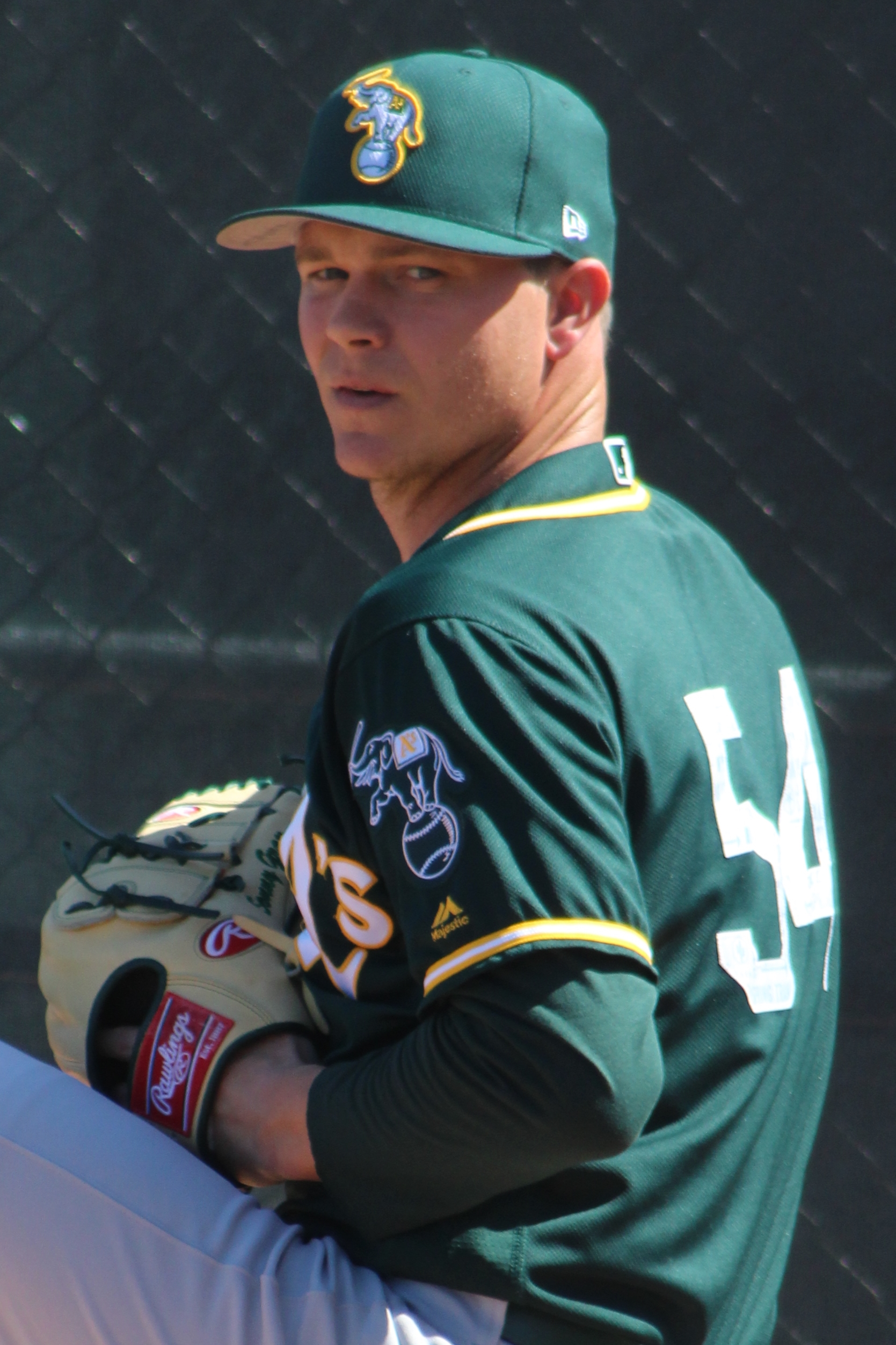 Pitcher Sonny Gray - Oakland A's at Arizona Diamondbacks: Spring Training - 3/7/17